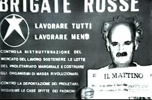 Description: This is a picture of Ciro Cirillo, taken during his detention by Red Brigades in 1981. Source:Pronto Dc? Qui le Br - L'espresso